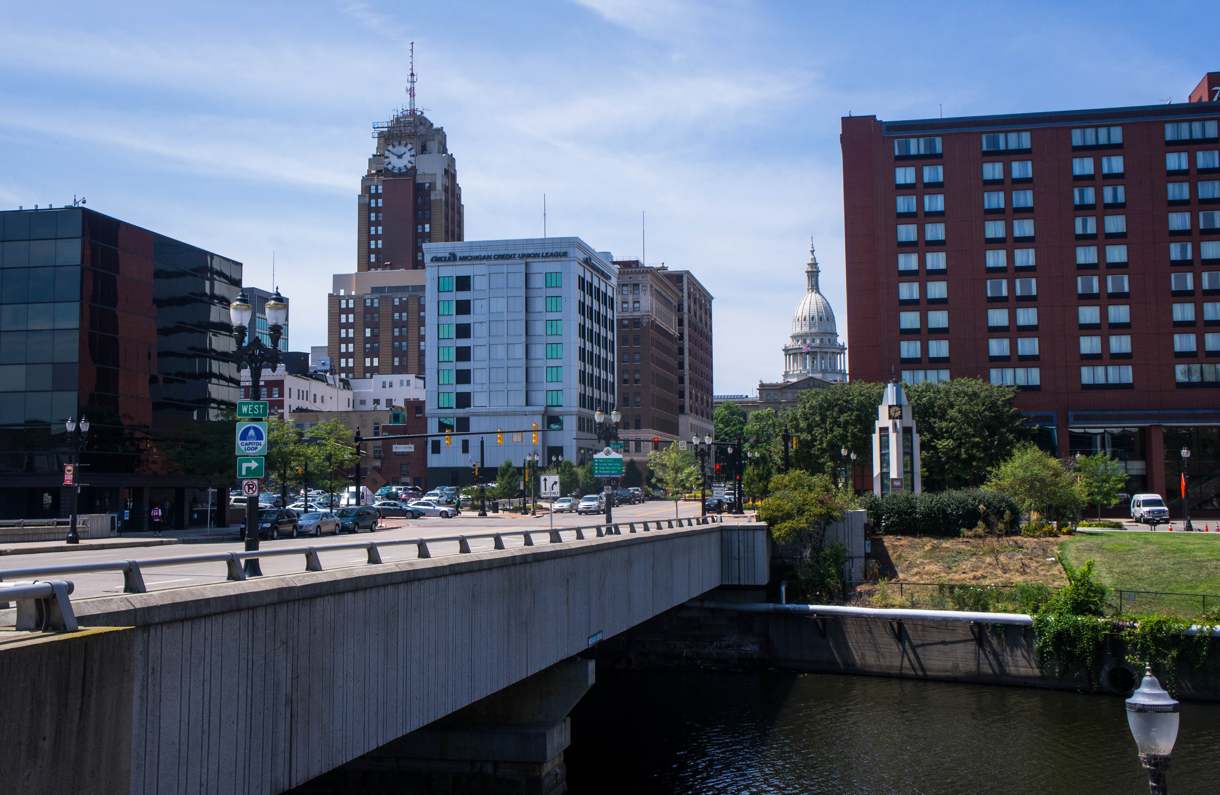 Downtown Lansing as seen by looking west from the Lansing Center along Michigan Avenue.